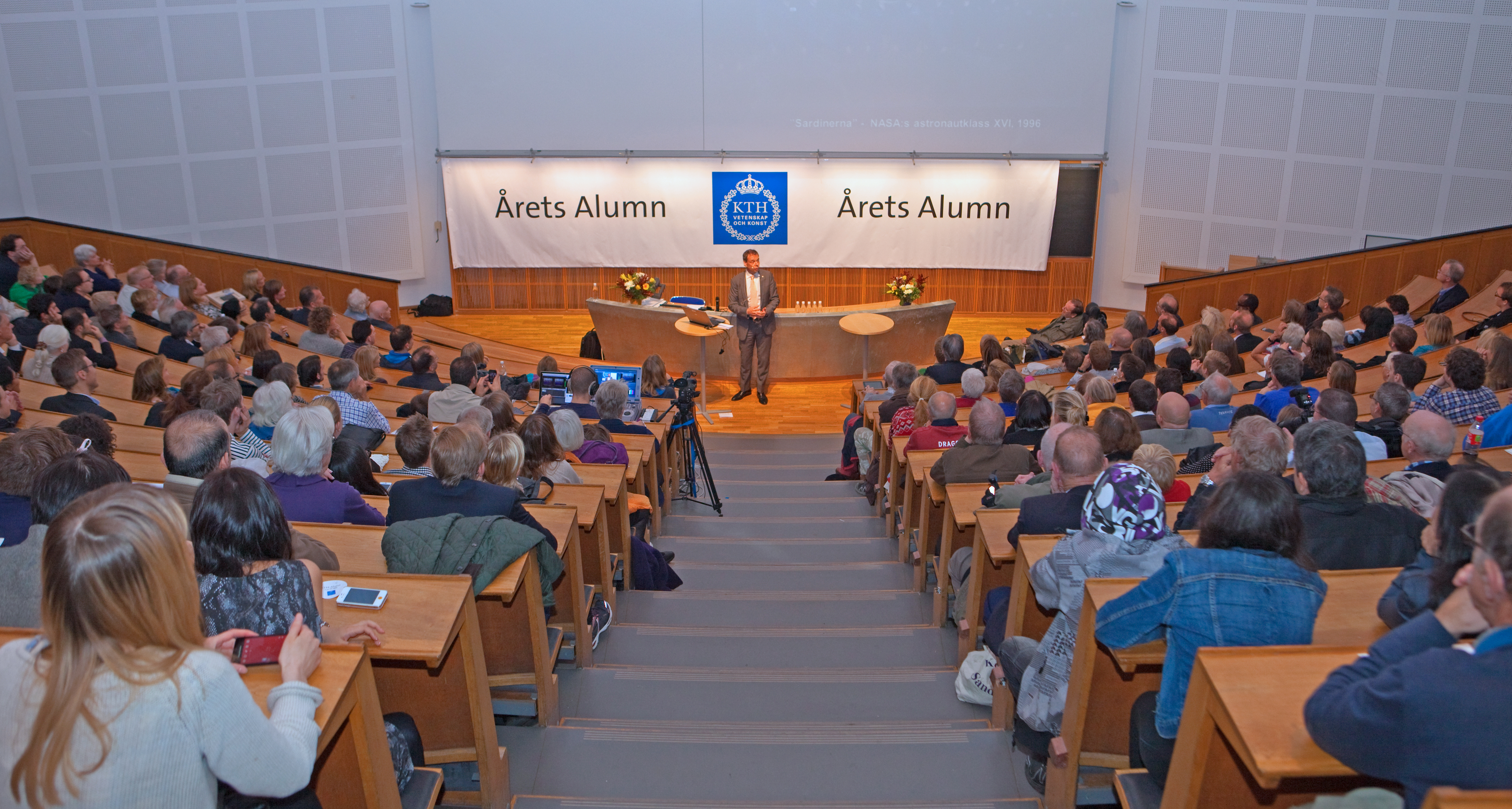 Swedish austronaut Christer Fuglesang nominated to KTH Alumni of the year 2012 telling his KTH audience about his experiences as an austronaut